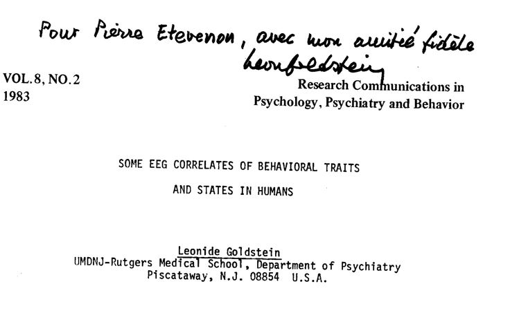 Dr. Pierre Etevenon WP alias: User:Pierre Raymond Esteve, has been dedicated over a first page of a preprint that Pr Léonide Goldstein has sent to him personnally by postal letter in 1983 in Paris before publication and from his Department of psychiatry, Rutgers University, Piscataway, New Jersey, USA.